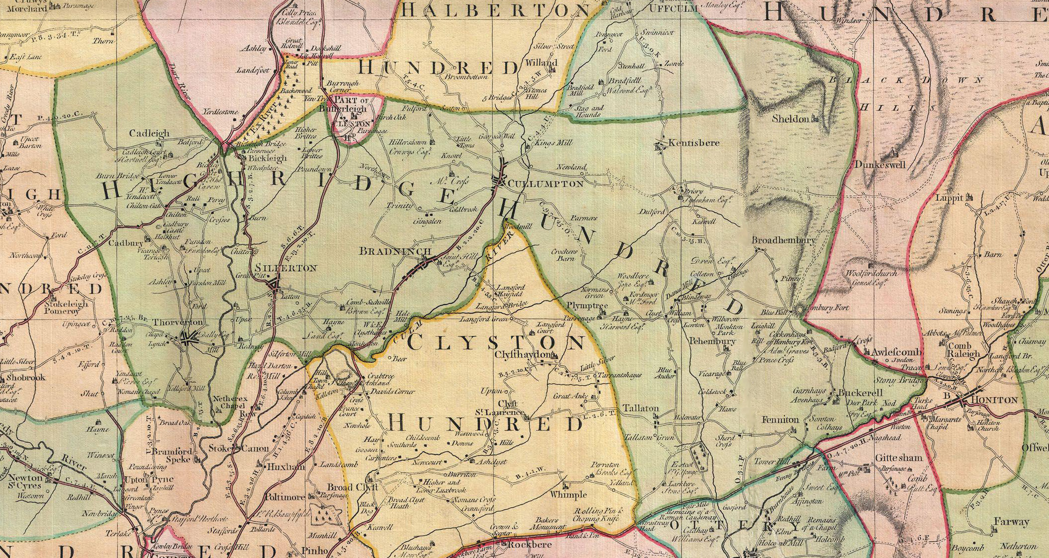 Section of map of 1765 showing the hundred of Hayridge (or Highridge as it was also known)